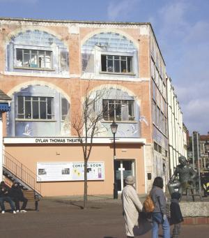 Dylan Thomas Theatre: Swansea. Home to Swansea Little Theatre. This theatre is situated on the Dylan Thomas square at the marina, on Gloucester Place.